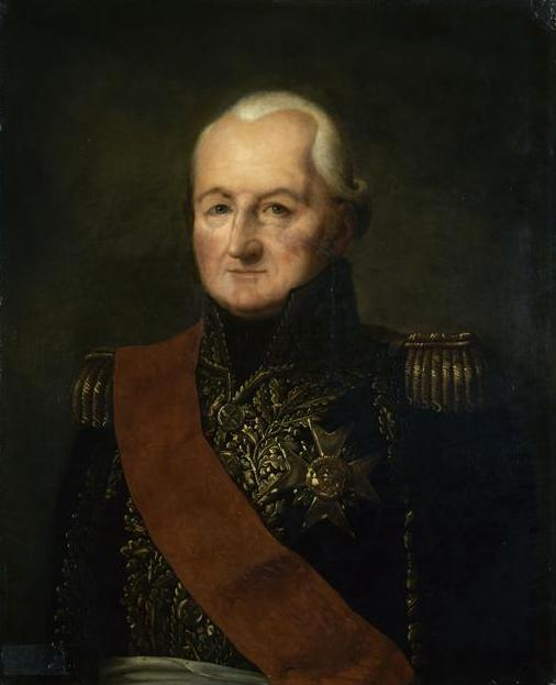 Artist Pierre-Louis Delaval (1790–1881) Alternative namesPierre-Louis de LavalDescriptionFrench painterDate of birth/death27 April 179025 November 1881Location of birth/deathParisParisAuthority control : Q19629576 VIAF: 78121341 ISNI: 0000 0000 3456 1800 ULAN: 500022052 LCCN: n2001027177 SUDOC: 035805811 WorldCat Title